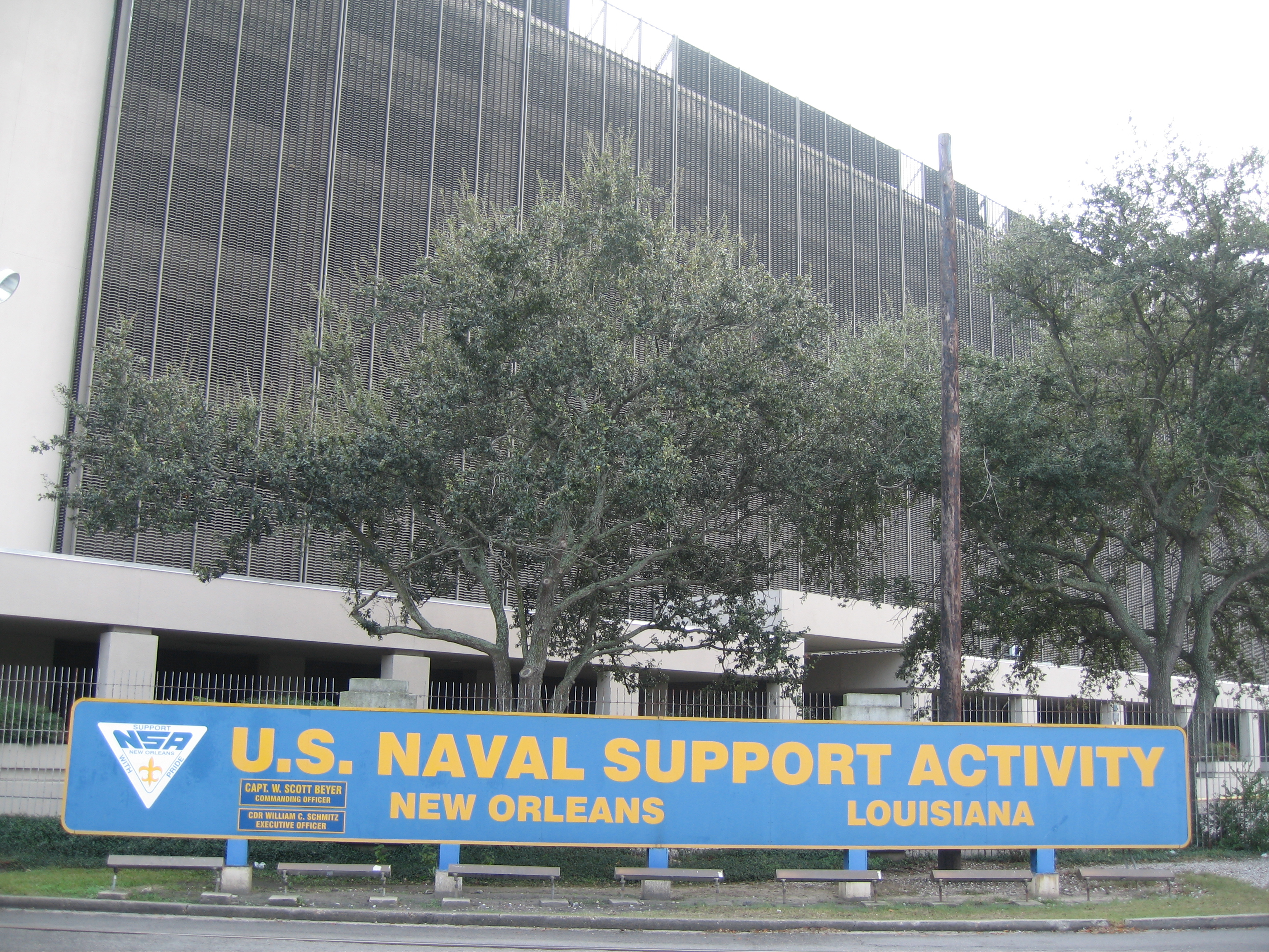 Sign at front gate of the Naval Support Activity New Orleans (EastBank) located on Dauphine Street at intersection with Poland Avenue in the Bywater District of New Orleans, Louisiana. The address for the EastBank side of the base is 4400 Dauphine Street.